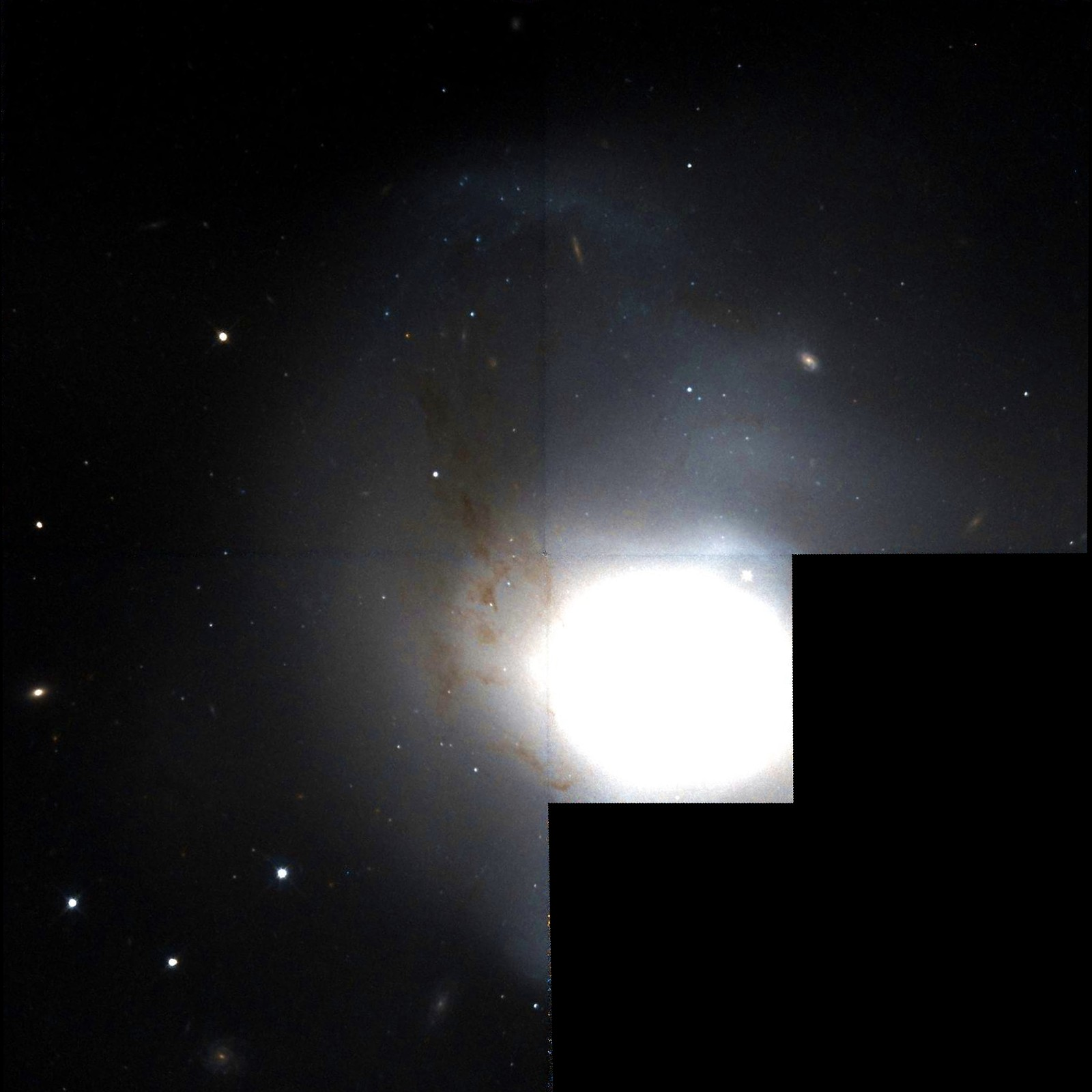 NGC 7727 galaxy by Hubble space telescope